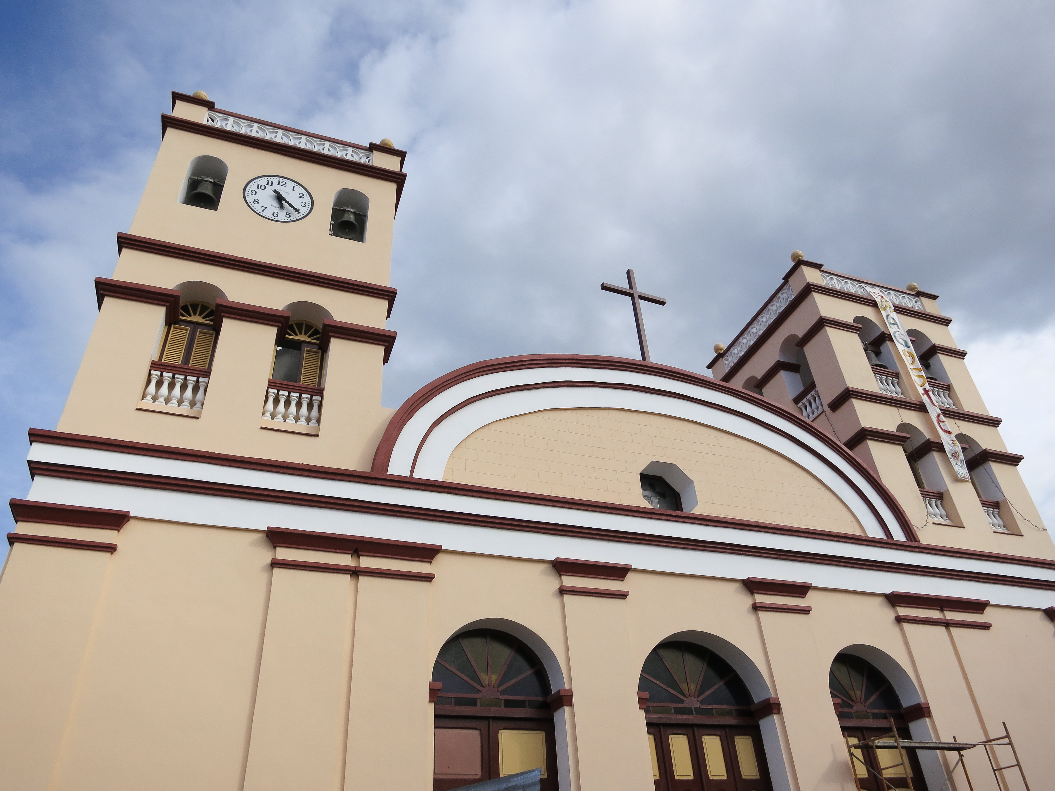 The church of Baracoa, just before the finish of the restauration works